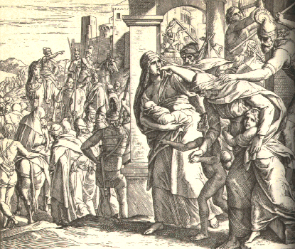 Nebuzaradan_carries_into_exile_the_remaining_people_in_the_city